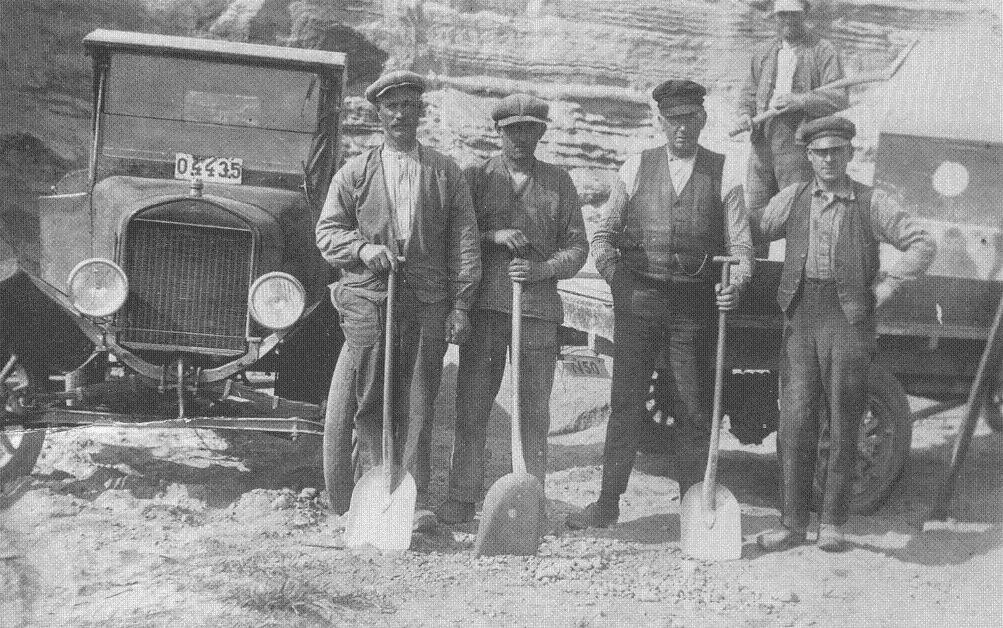 Building the hydropower plant in Ätran at Rävigeforsen in Ätrafors, 1916